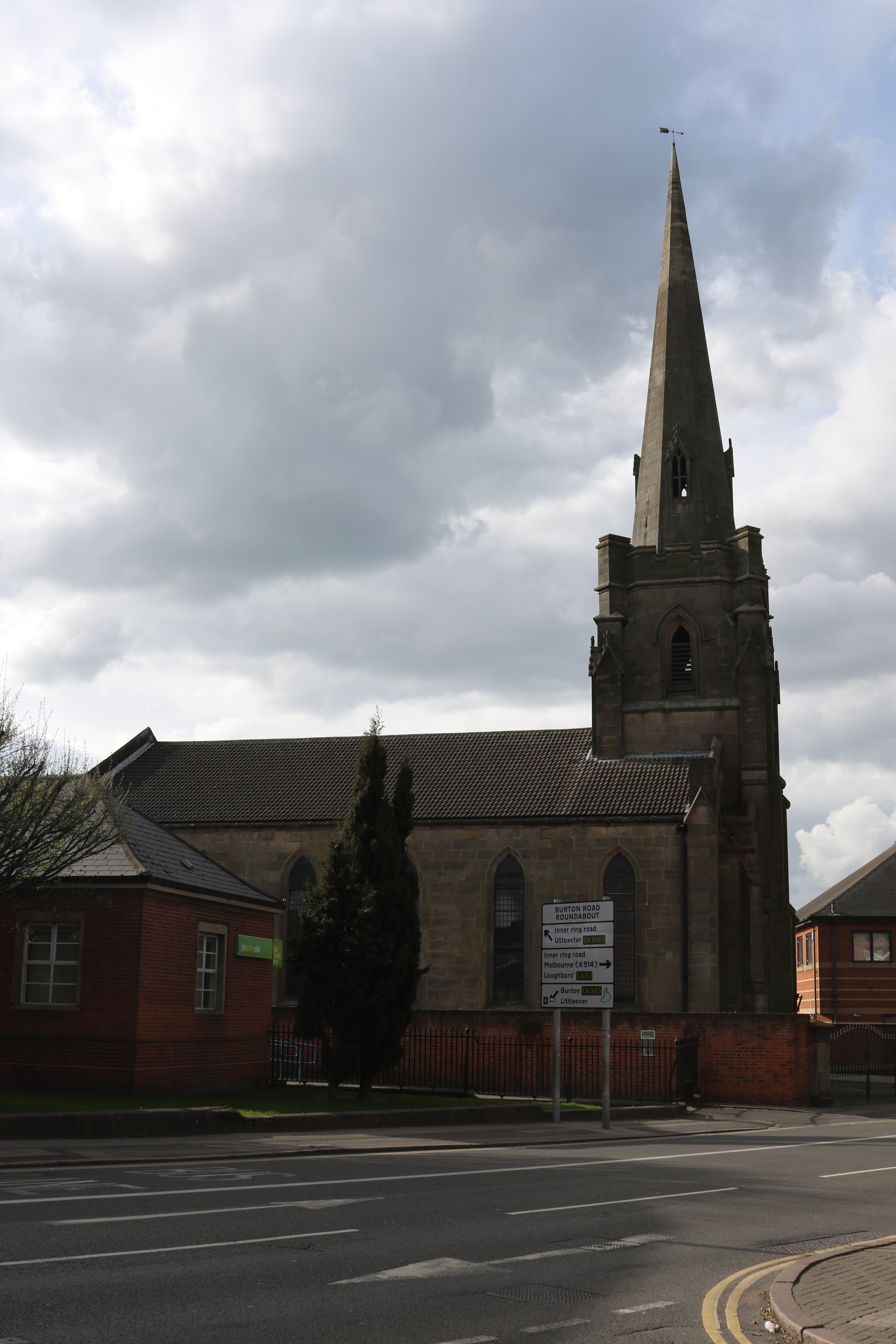 The Serbian Orthodox church of the Apostles Peter and Paul, Normanton Road, Derby: formerly Christ Church parish church